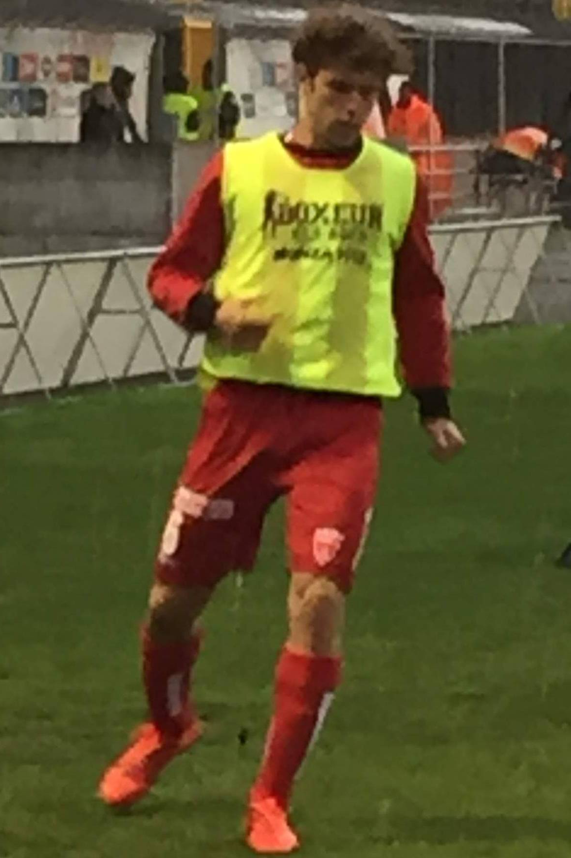 Monza - Viterbese, Coppa Italia Serie C Final 2019